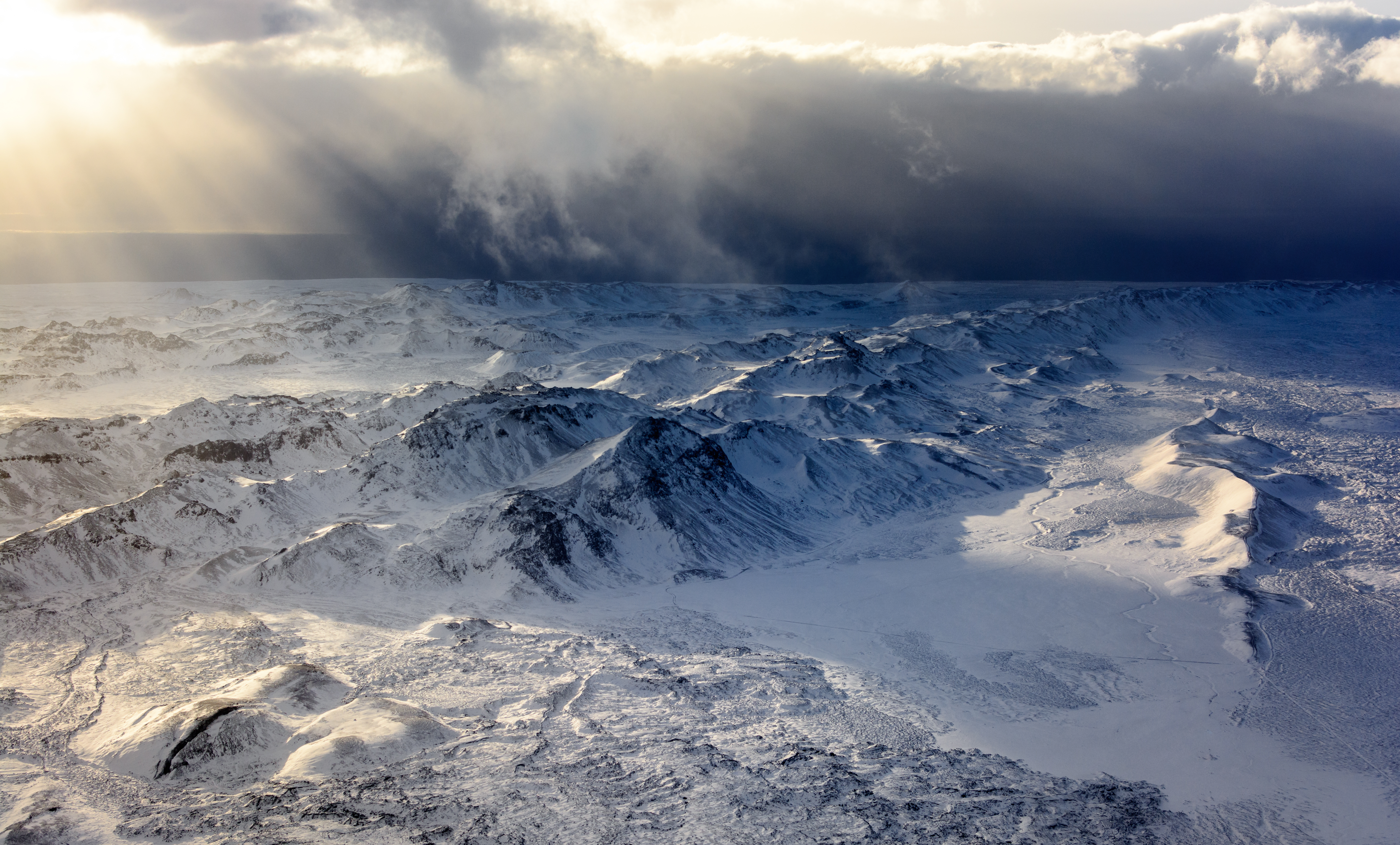 A shot taken from a plane over Iceland's south-western part of the mountain range caused by the Mid-Atlantic Ridge (Reykjanes Ridge). The shot is pointing towards the south-east (taken from above the sea).